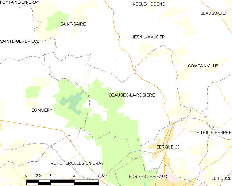 Map of French municipality Beaubec-la-Rosière